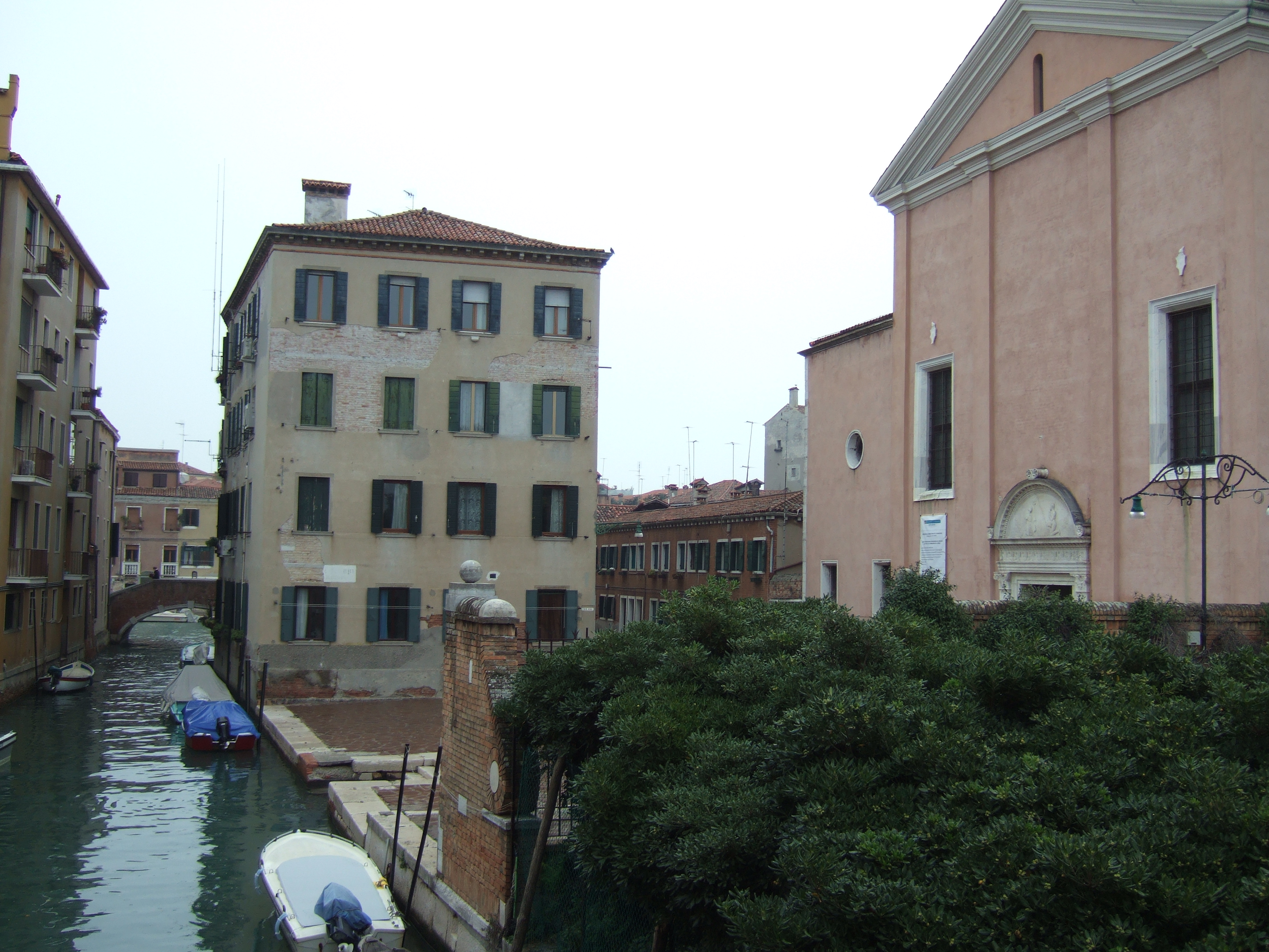 Rio de San Giobbe (Venice) and PONTE DE LA SAPONELA